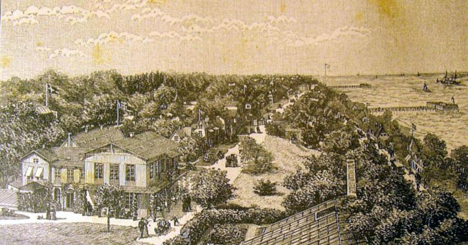 Klampenborg Badeanstalt, Denmark